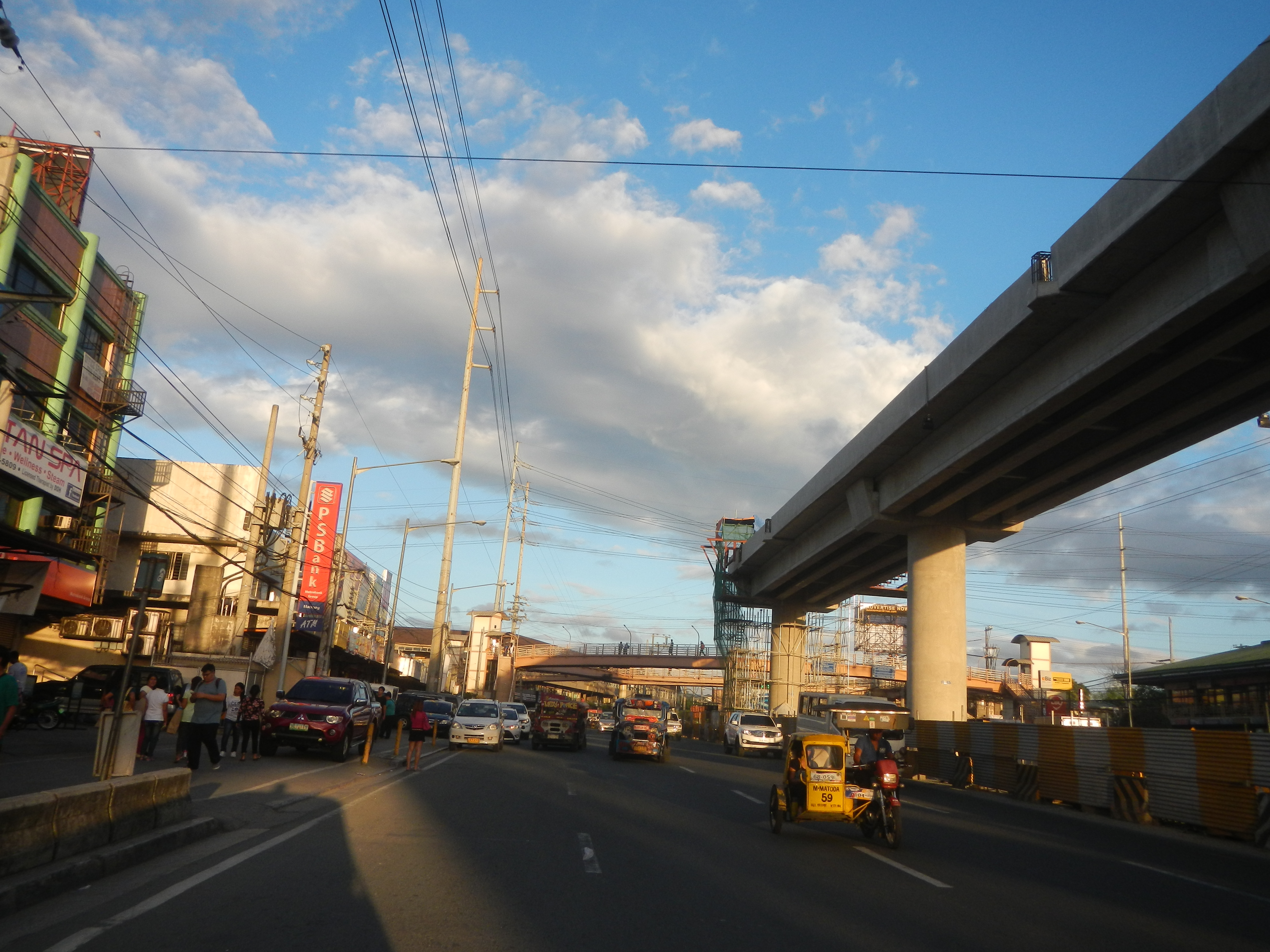 Landscape of Manila MRT Line 2 (Santolan station - Emerald station - Masinag station, Marcos Highway, Pasig City, Marikina City, Cainta, Rizal & Antipolo City) Legislative districts of Antipolo City List of barangays of Metro Manila,Barangays San Jose 14°37'16"N 121°15'47"E Dalig 14°34'11"N 121°11'28"E Santa Cruz 14°36'45"N 121°9'37"E Mambugan 14°36'56"N 121°8'8"E Antipolo City along Sumulong Highway to Circumferential Road 6 and Marikina–Infanta Highway Marcos Highway or MARILAQUE Highway or Manila-Rizal-Laguna-Quezon interconnecting with, along and from the Marcos Highway 14°36'49"N 121°20'8"E (Marikina City Section) (Note: Judge Florentino Floro, the owner, to repeat, Donor Florentino Floro of all these photos hereby donate gratuitously, freely and unconditionally all these photos to and for Wikimedia Commons, exclusively, for public use of the public domain, and again without any condition whatsoever).